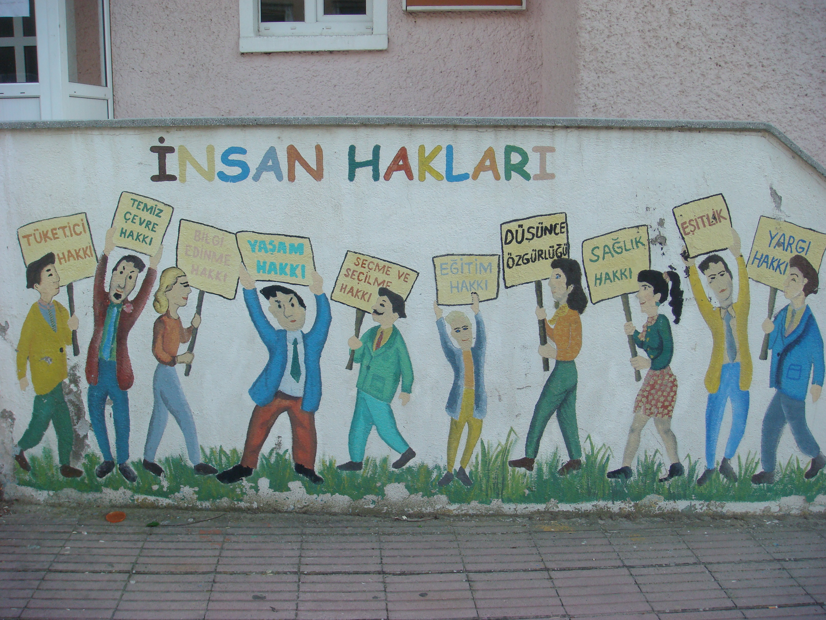 A mural describing human rights in Turkey outside of the public education building in Bayramic Turkey